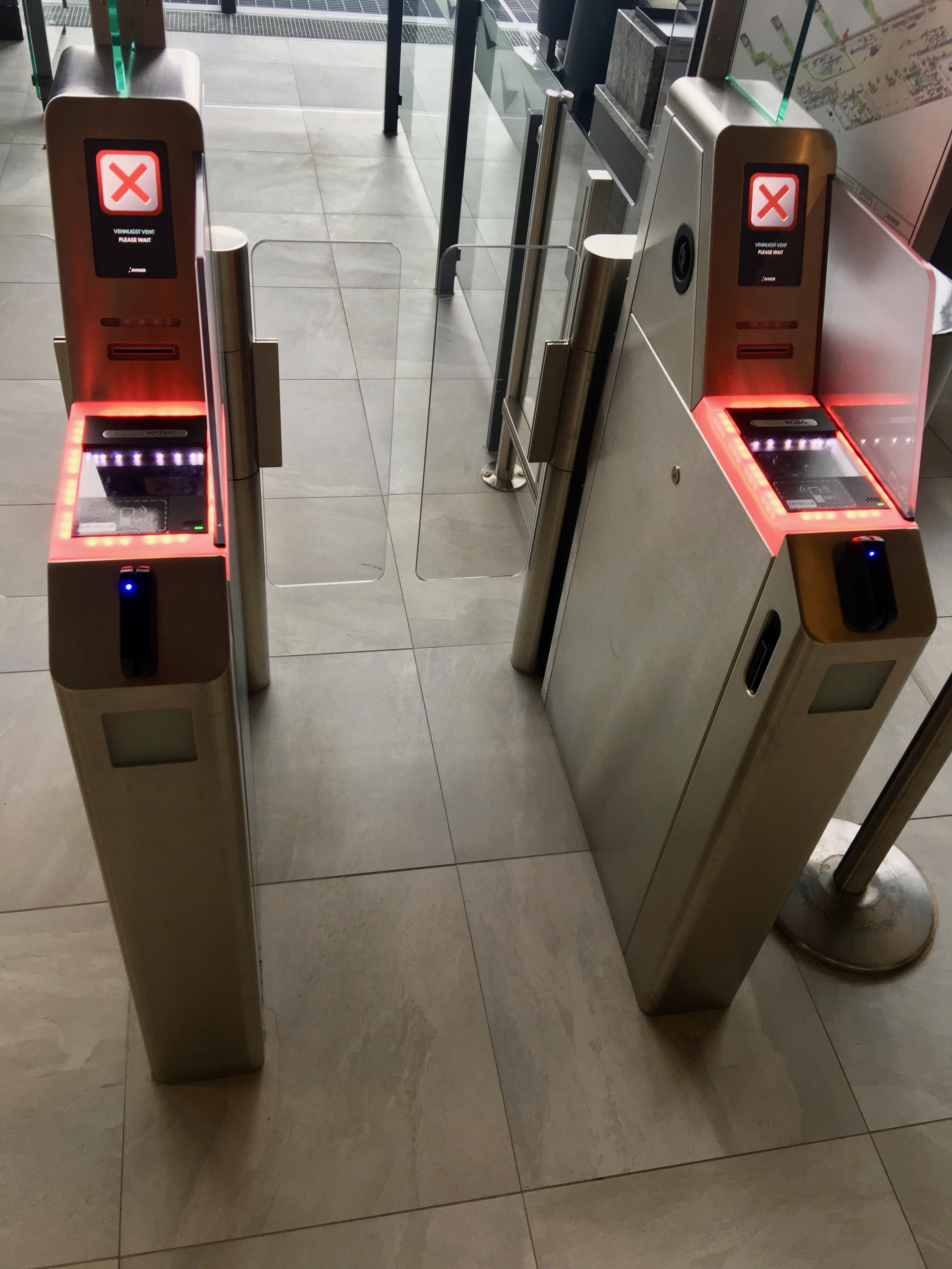 Bergen Airport, Flesland, Norway (Bergen lufthavn). Interior of terminal 3: boarding card registration machines at flight gate. 2018-03-23.